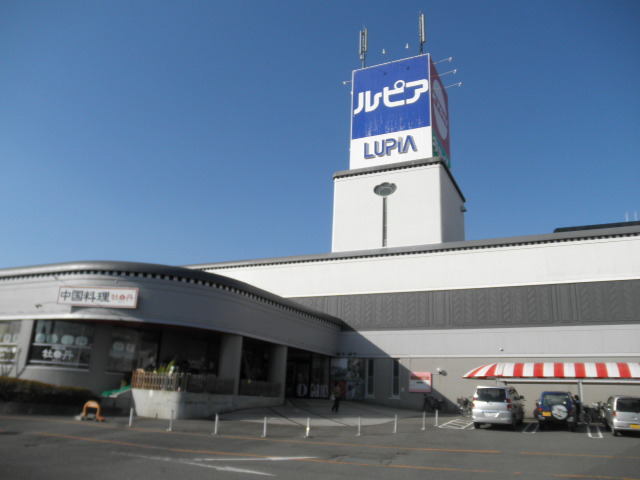 Komatsushima Lupia shopping center